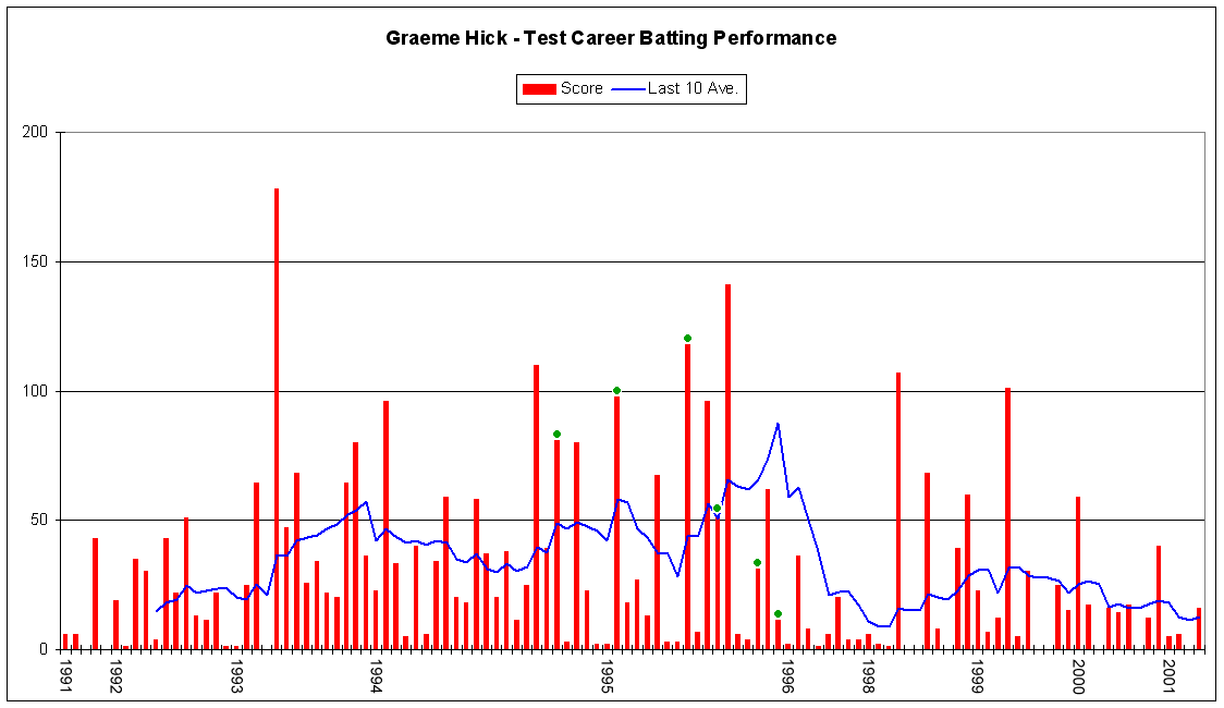 Graeme Hick Test Career Batting Performance graph